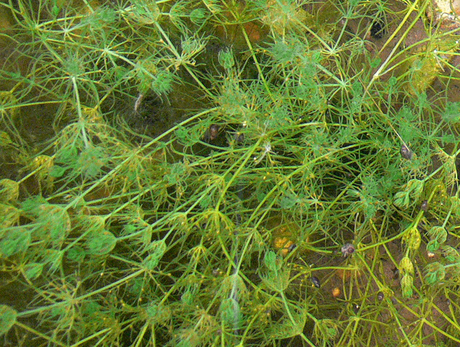 Chara sp. in a artificial place, in Lille (North of France)